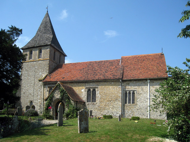 St Martin of Tours Church, The Street, Detling, Kent Grade I listed